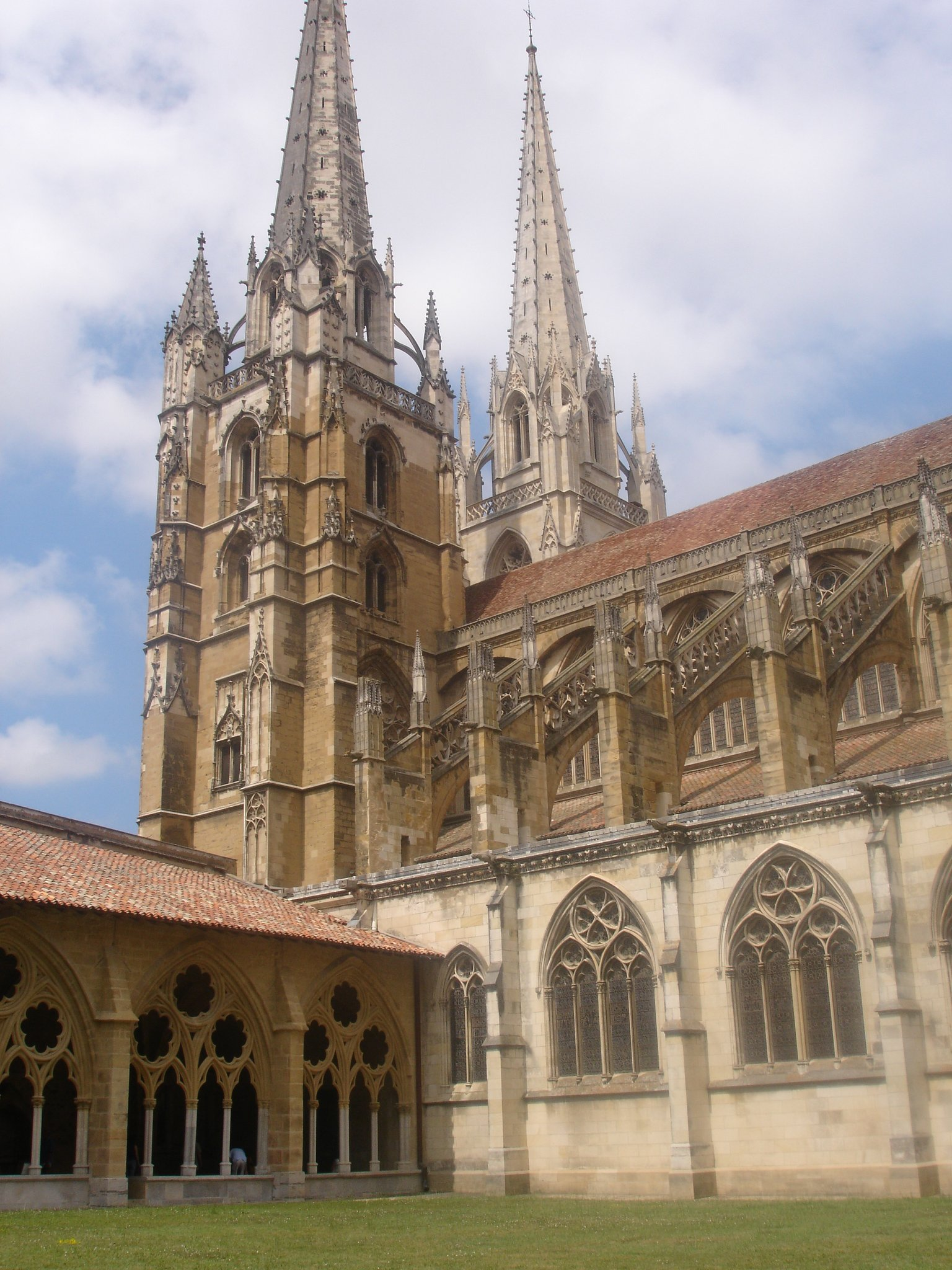 France, Pyrénées-Atlantiques (64), Cathédrale Sainte-Marie de Bayonne